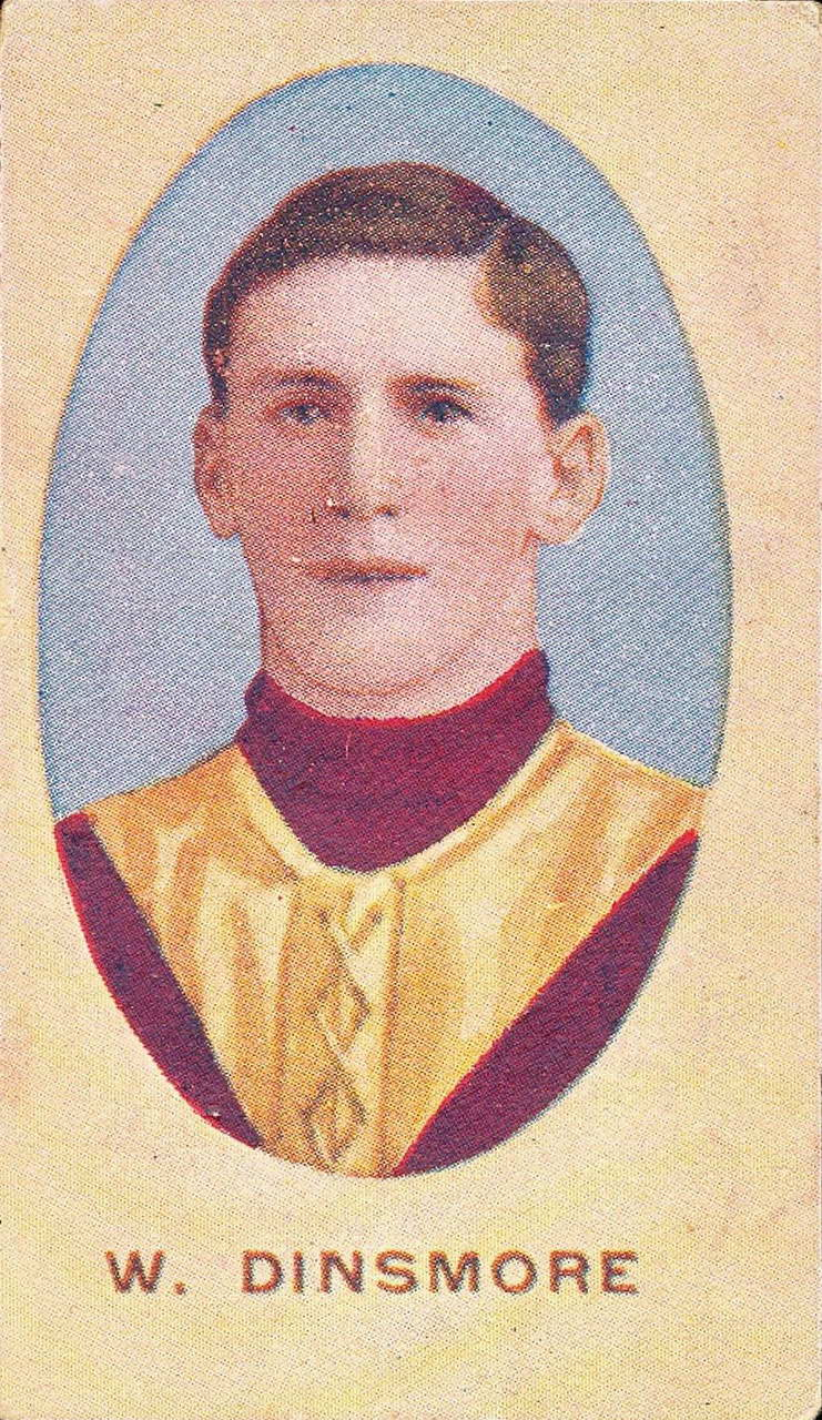 Cigarette card of Bill Dinsmore from the Sniders & Abrahams 1910 series